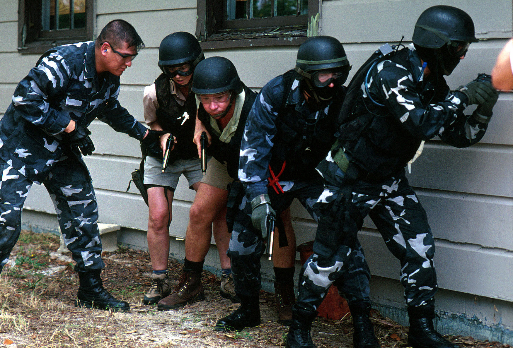 Famed Auatralian crocodile hunter Steve Irwin and his wife Terri Raines (center) participate in an anti-terrorist course with security pesonnel from Eglin AFB. During their visit to Eglin, Steve and Terri spent most of their time filmimg the base's environmental management program.